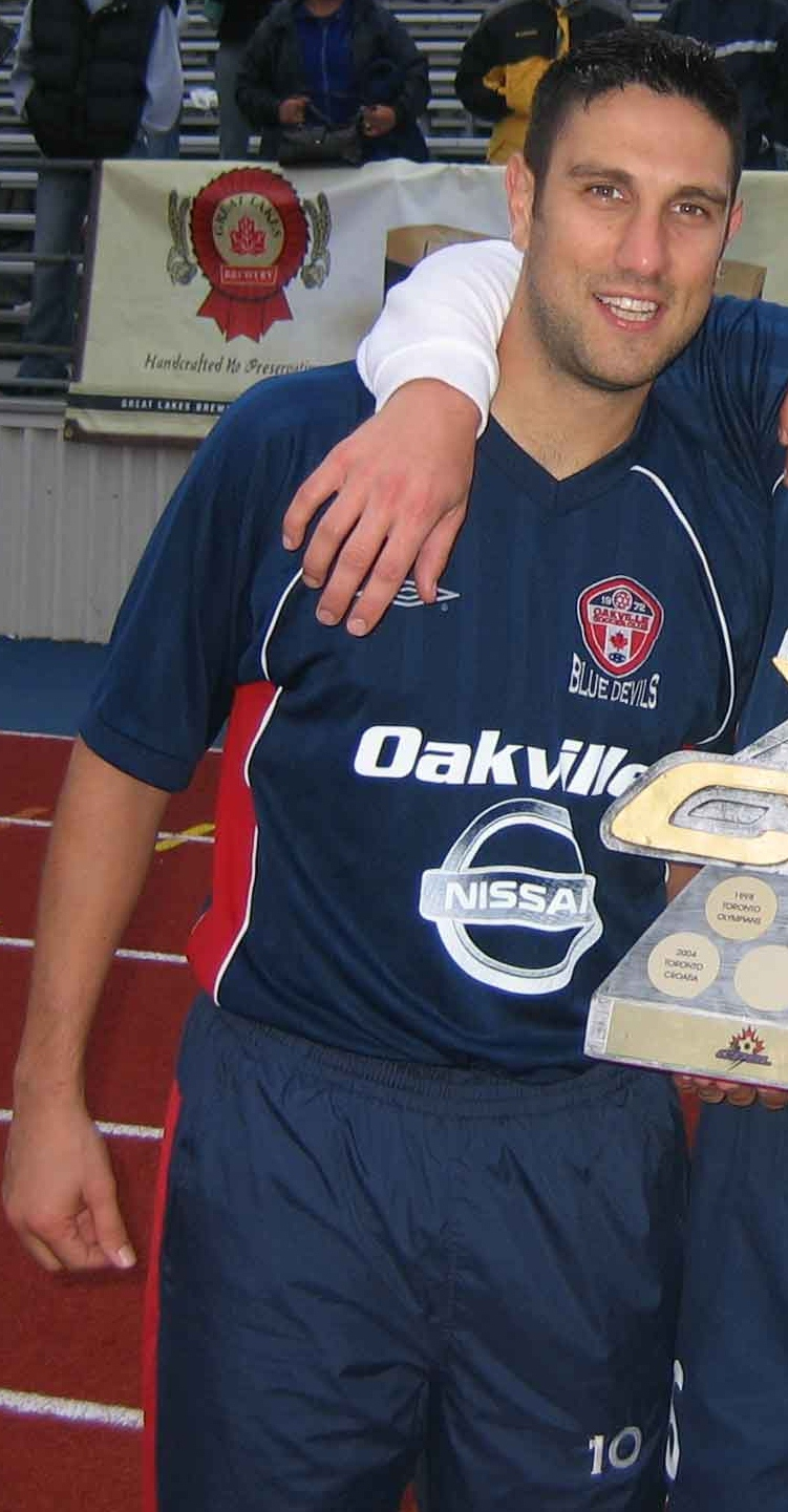 Oakville Blue Devils captain Phil Ionadi